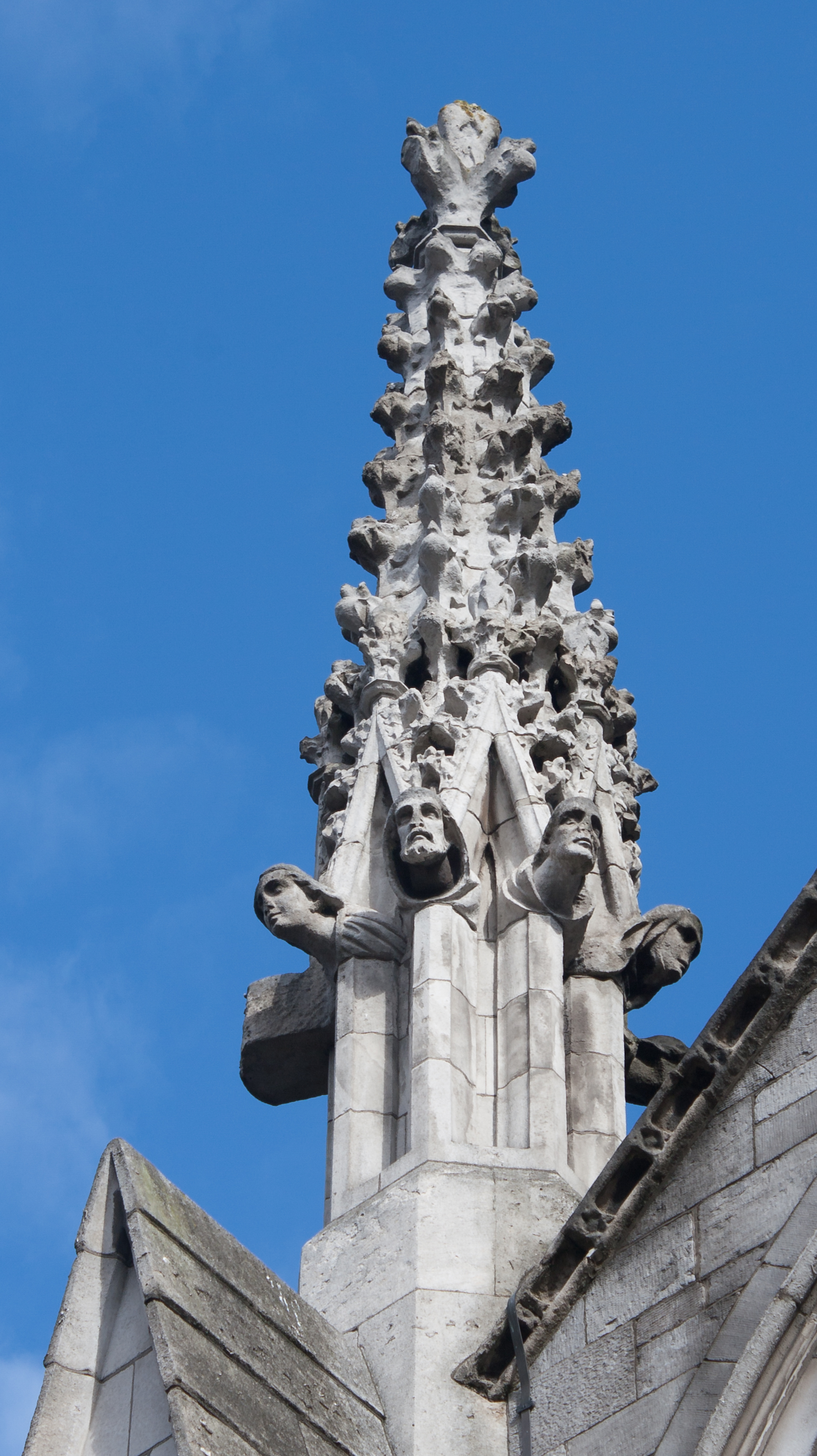 Pinnacle with a ring of carved heads on top of the buttress at the north-western corner of the north aisle.